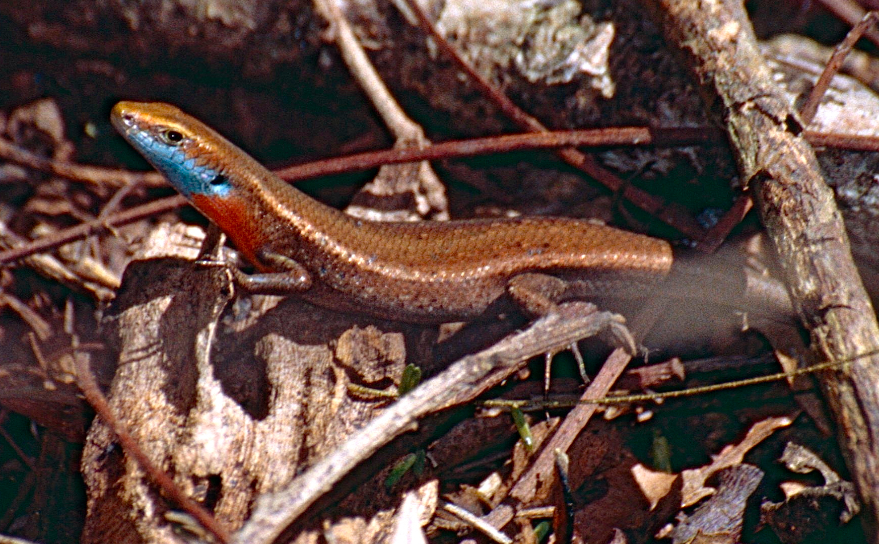 Cape Hillsborough NP, Central Queensland, AUSTRALIA Scanned Slide from Dec 2000